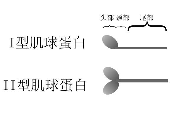 Type I and II Myosin. Own Work with Firework.